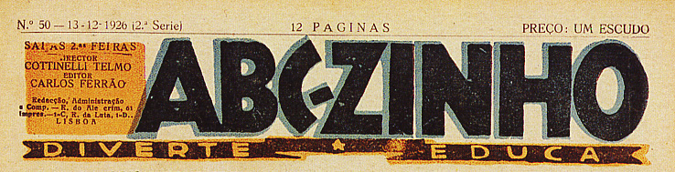 ABC-zinho magazine, 1926